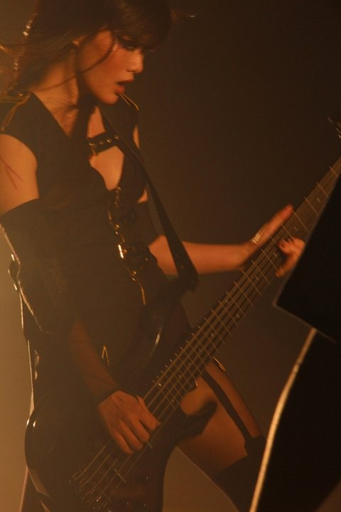 Doris Yeh, having joined in 1999, is the bassist and appeared on the cover of FHM Magazine Taiwan in November 2008